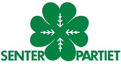 This is a logo for Senterpartiet